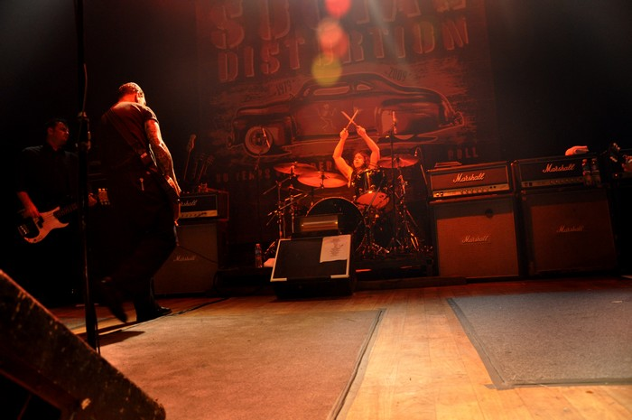 Social Distortion live El Teatro Flores, Argentina, 9th april 2010